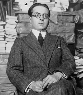 French writer Marcel Arland (1899-1986) on his receiving the Prix Goncourt in 1929.